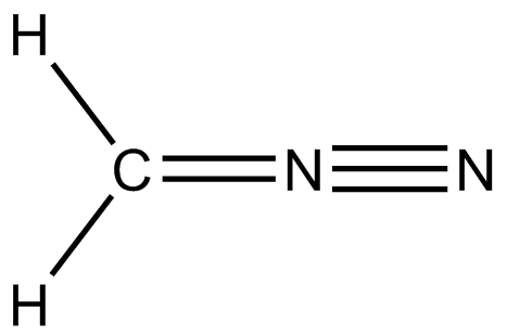 Chemical formula of diazomethane, showing hypervalent nitrogen